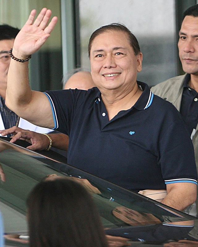 Jose Miguel Arroyo, First Gentleman of the Philippines, departing St. Luke's Medical Center. The original description is as follows: “President Gloria Macapagal Arroyo and First Gentleman Atty. Mike Arroyo and his attending physician with their Granddaughter Mikeala waves to the media men at the St. Luke’s Medical Center after his discharge. April 07, 2010 (AVITO C. DALAN/PCPO)” This file has been extracted from another file: Jose Miguel Arroyo departing St. Luke's Medical Center.jpg